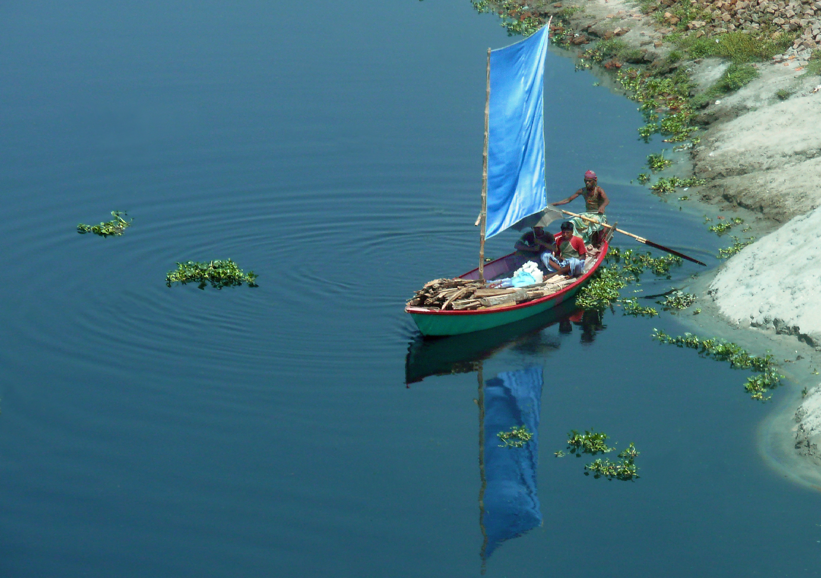 Blue sailed boat in Bangladesh.